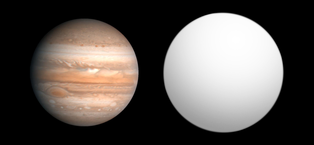 Comparison of best-fit size of the exoplanet OGLE-TR-113 b with the Solar System planet Jupiter, as reported in the Extrasolar Planets Encyclopaedia[1] as of 2010-10-03. ↑ Extrasolar Planets Encyclopaedia (2010-09-30). Retrieved on 2010-10-03.